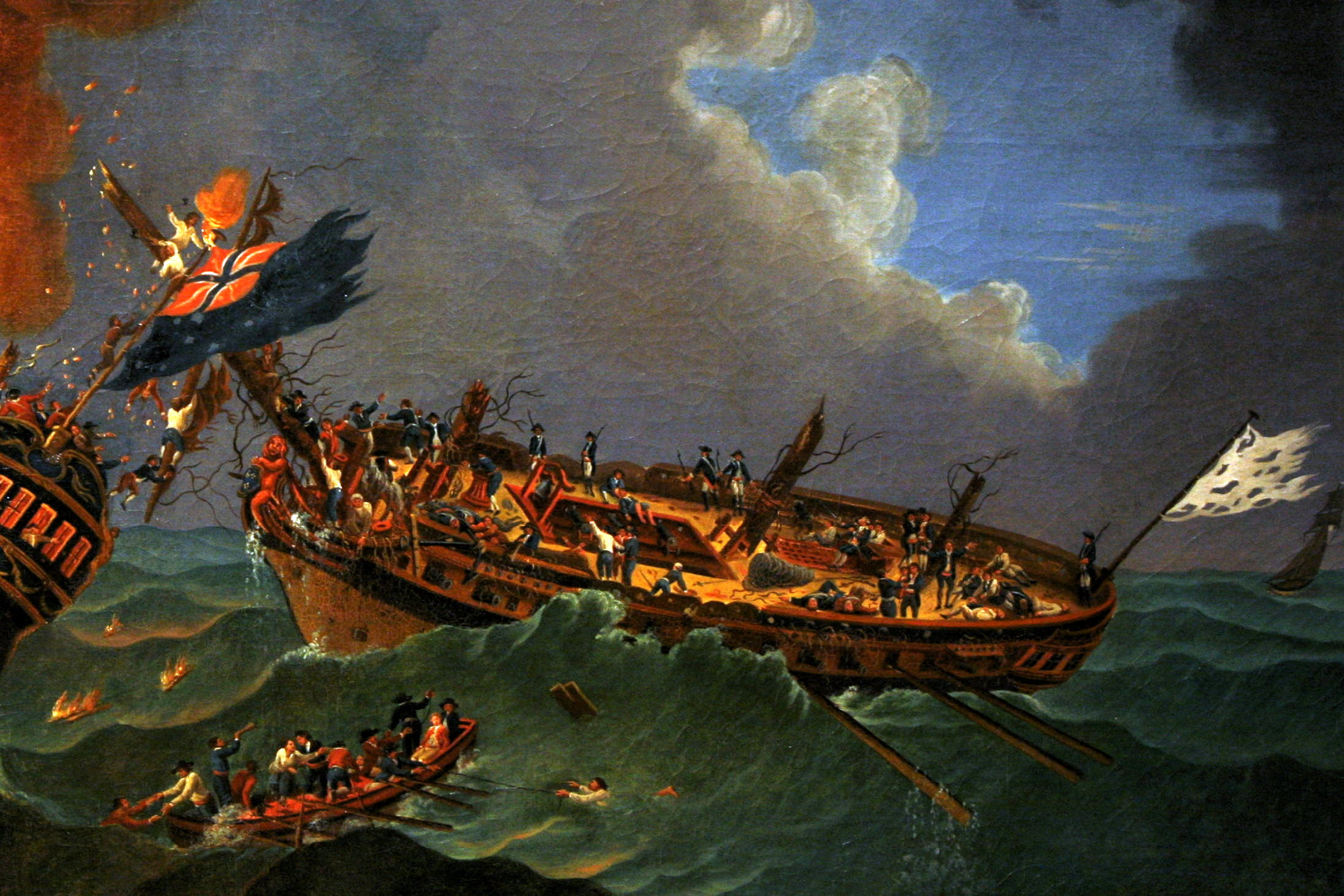 Artist Auguste-Louis Rossel de CercyDescription Battle between the French frigate Surveillante and the British frigate Quebec, 6 october 1779Collection Musée national de la Marine Native nameMusée national de la MarineLocationParisCoordinates48° 51′ 43″ N, 2° 17′ 15″ E Established1827Web page control : Q1286709 VIAF: 19144648200974718522 ISNI: 0000 0001 2259 2914 LCCN: n50055356 Museofile: M5026 WorldCat institution QS:P195,Q1286709Accession number 3 OA 12Source/Photographer MedOther versions Battle between the French frigate Surveillante and the British frigate Quebec, 6 october 1779